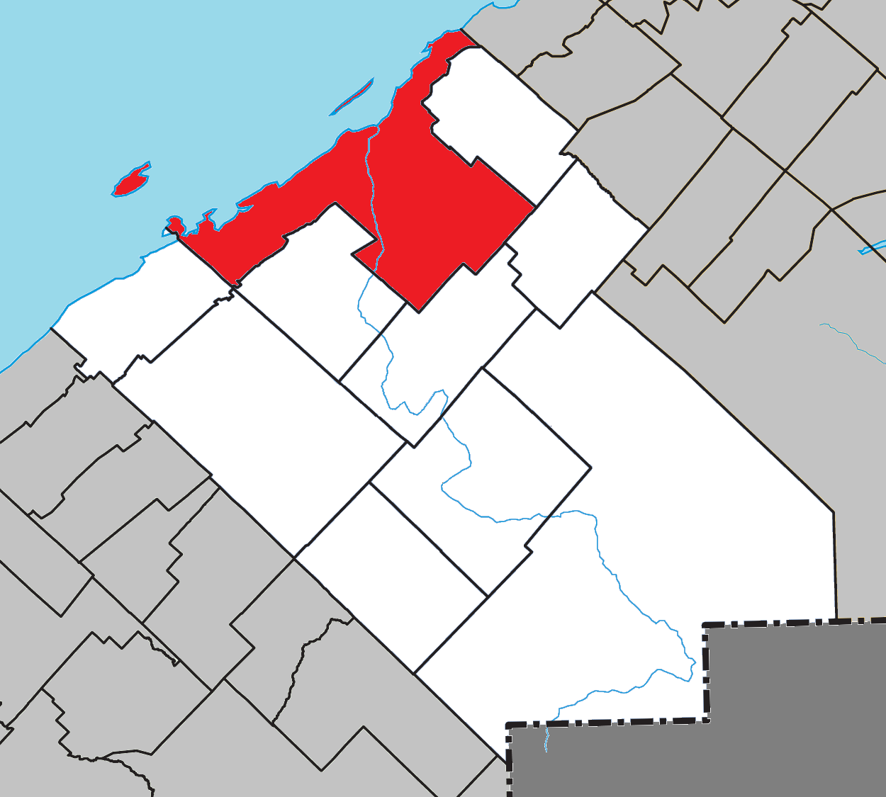 Location of Rimouski, Quebec within Rimouski-Neigette Regional County Municipality.